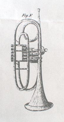 A 3-valved trumpet by Carl August MUELLER c.1833